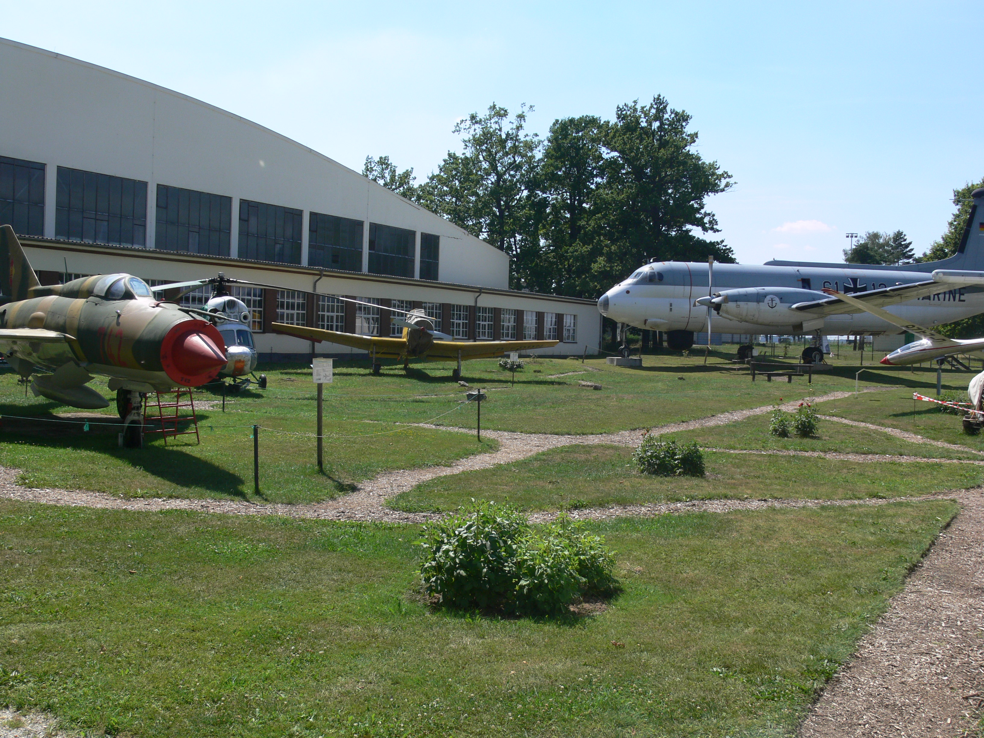 Aircraft of Flugwelt Altenburg-Nobitz